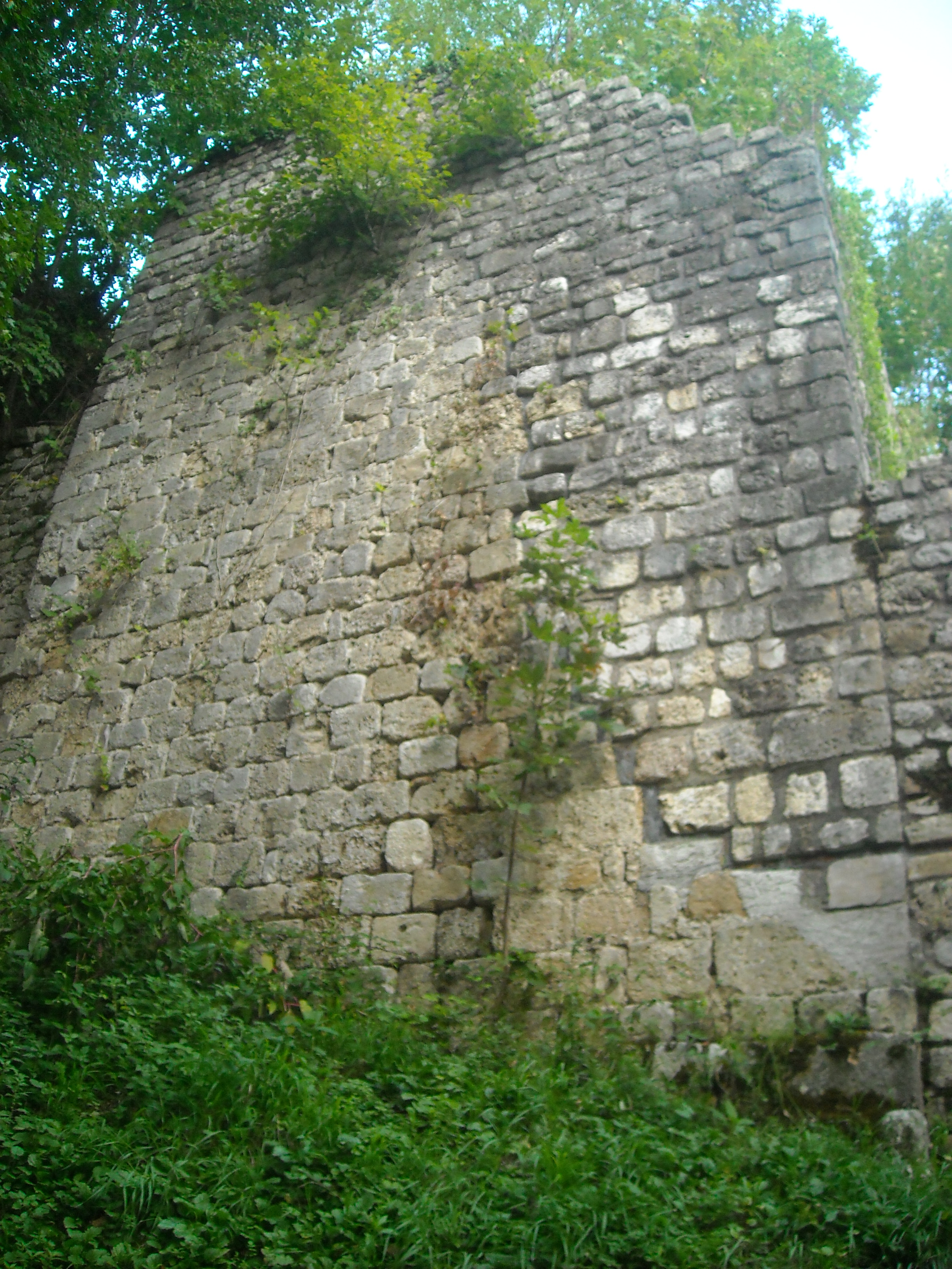 The keep in the castle of Maniago, seen from the outside of the walls.